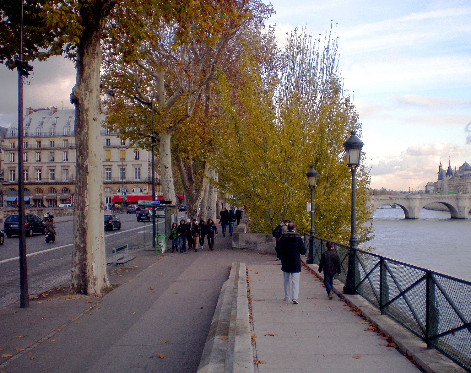 Quai François-Mitterrand - Paris